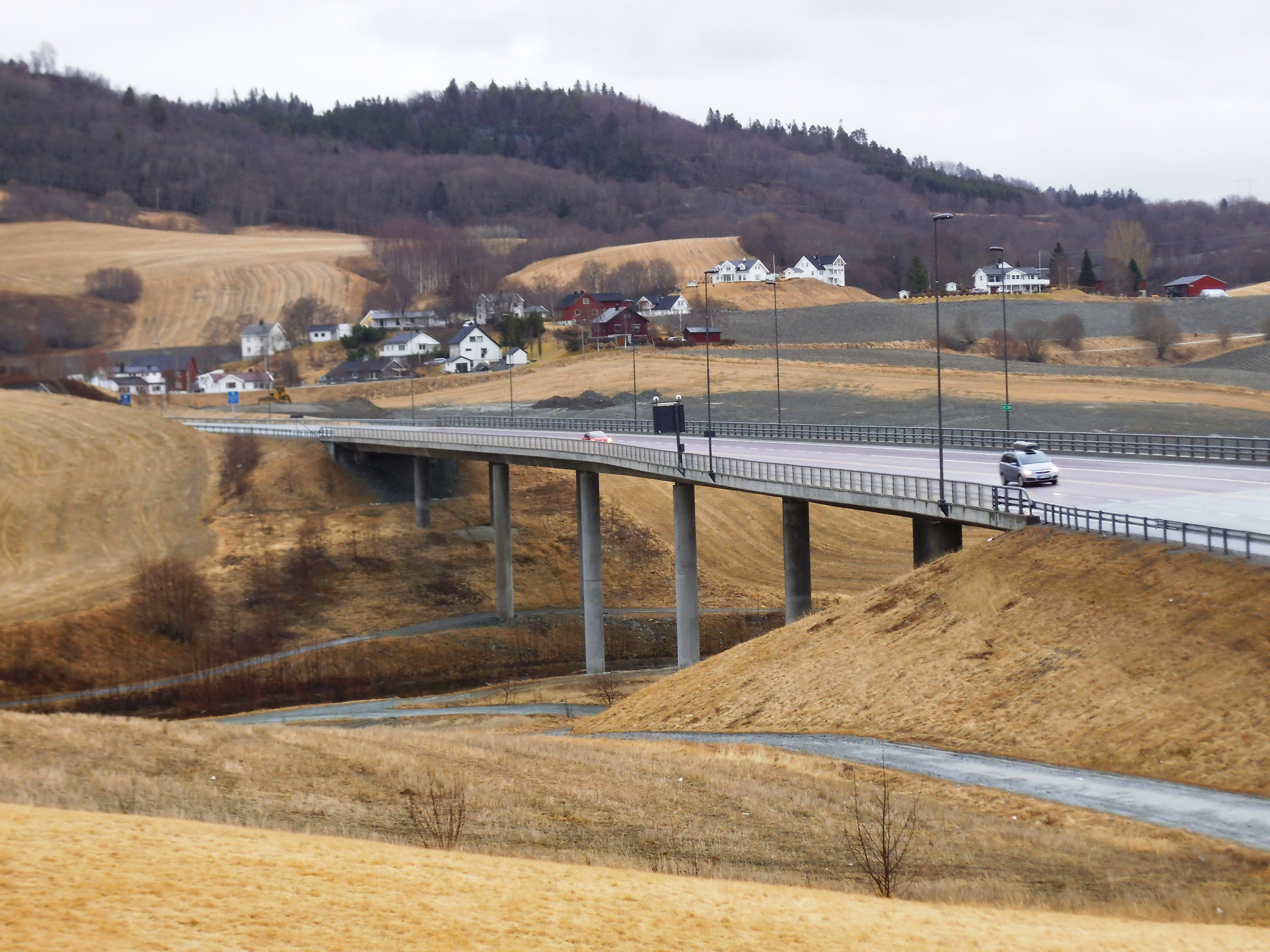 Saltnesbrua. A road bridge in Buvika, Skaun, Norway.